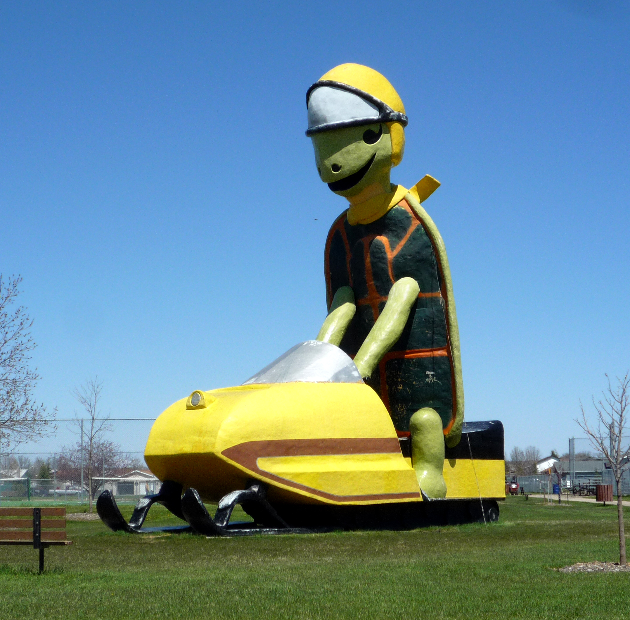 "Tommy Turtle", symbol of Bottineau, North Dakota.